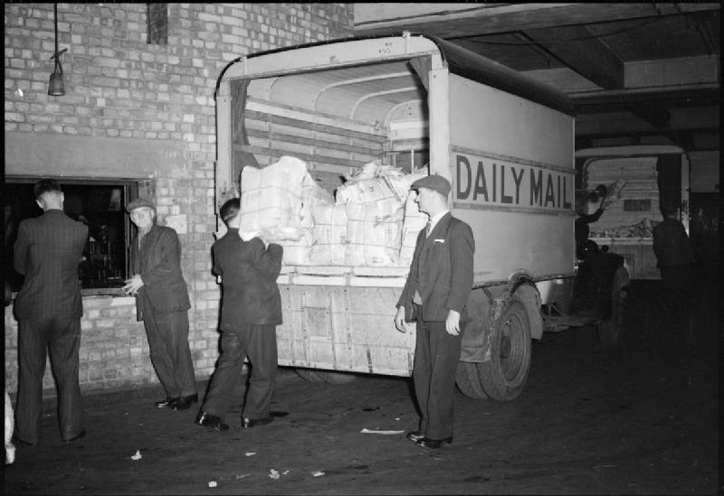 The Makings of a Modern Newspaper- the Production of 'the Daily Mail' in Wartime, London, UK, 1944 Drivers load bundles of newspapers into the back of a 'Daily Mail' van in the early hours of the morning for delivery to newsagents. The papers are wrapped in old newsprint and tied with string.